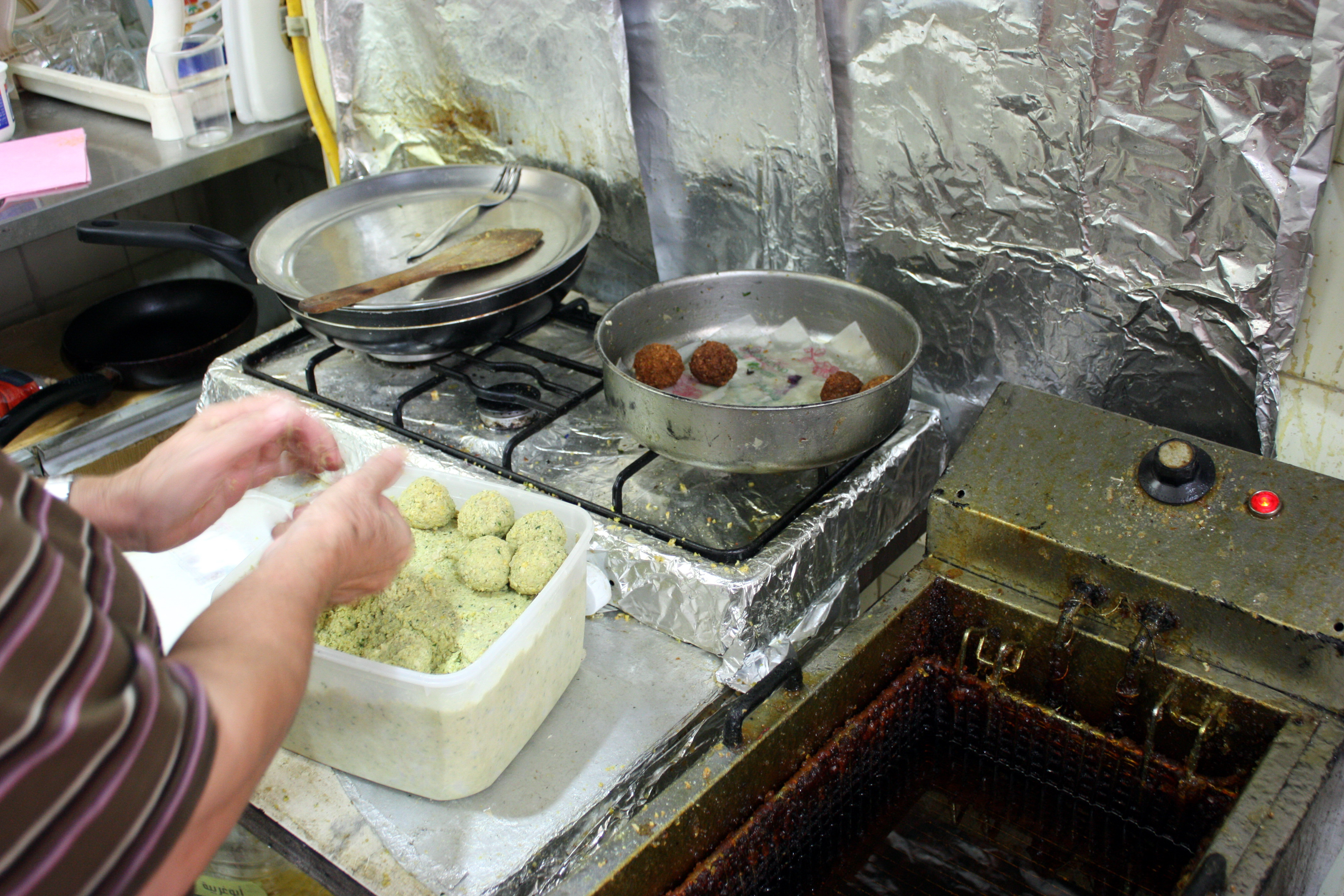 Preparation for falafel.